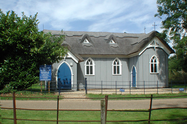 St Felix, Babingley, Norfolk, near to Castle Rising, Norfolk, Great Britain.